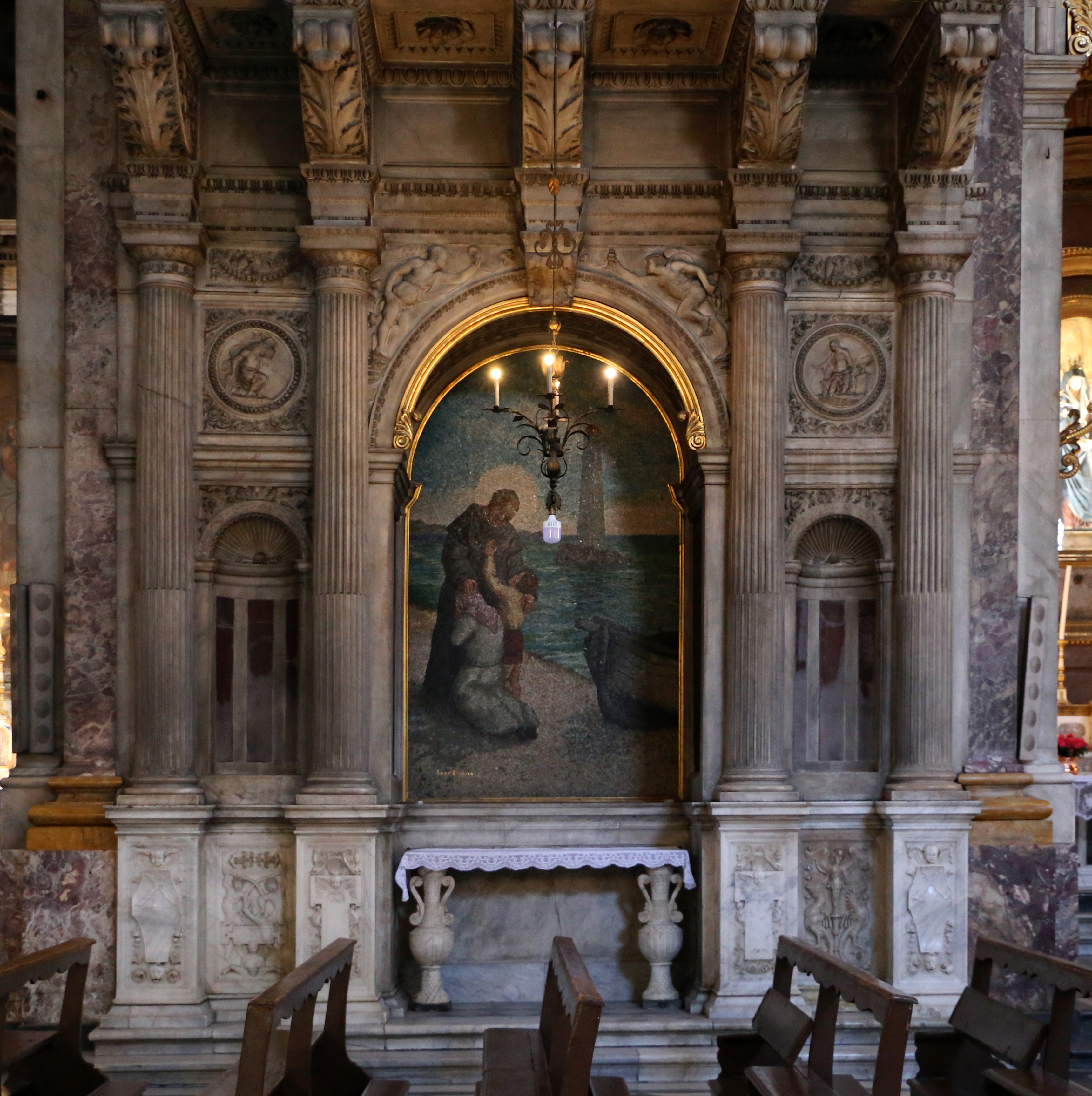 Santissima Annunziata (Florence) - Chapel of the Saviour